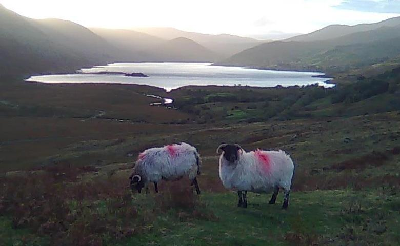 View of Lough Nafooey